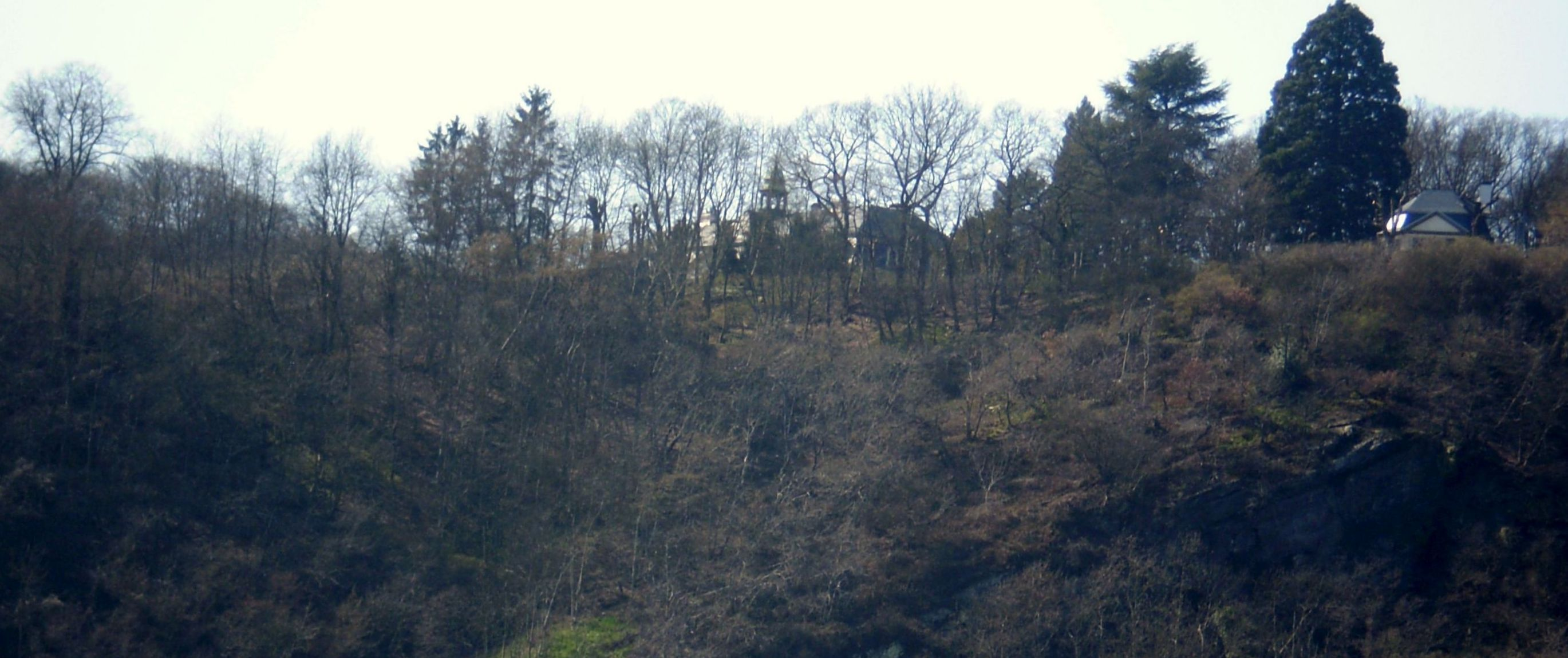 Schloss Ernich and the surrounding area, near Remagen